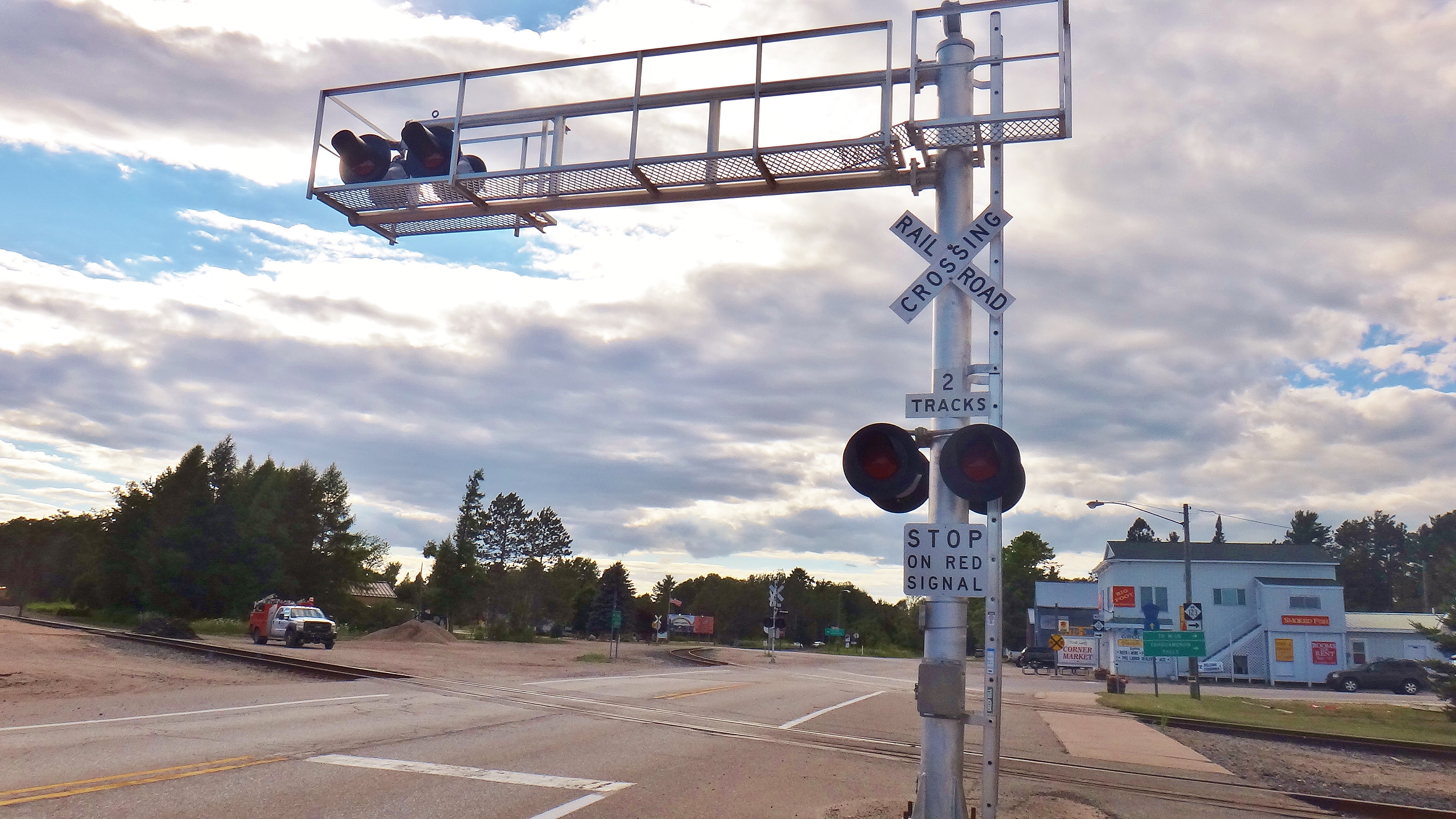 Railroad Crossing on the Canadian National (Ex. Soo Line) line in Trout Lake, Michigan.